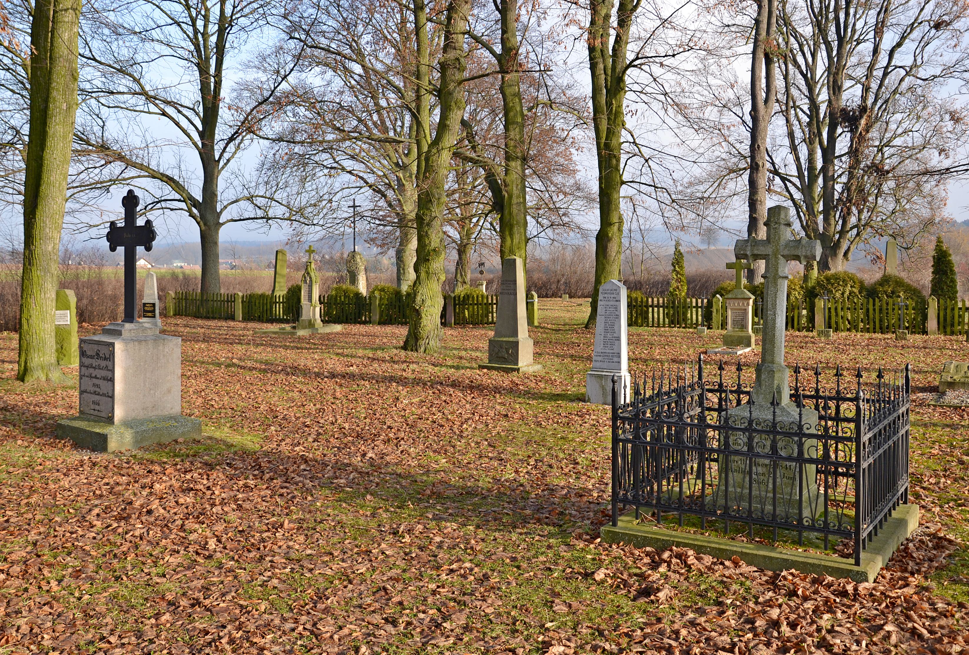 Military cemetery in Česká Skalice (Böhmisch Skalitz), Czech Republic